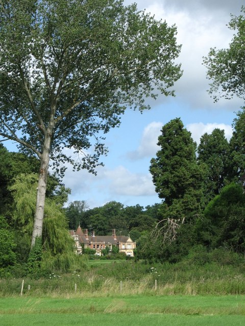 Eythrope Pavillion, from the North Bucks Way. The home of Jacob Rothschild, 4th Baron Rothschild. The house is the last of the Buckinghamshire Rothschild houses to remain in Rothschild hands. It remains very much a private home.